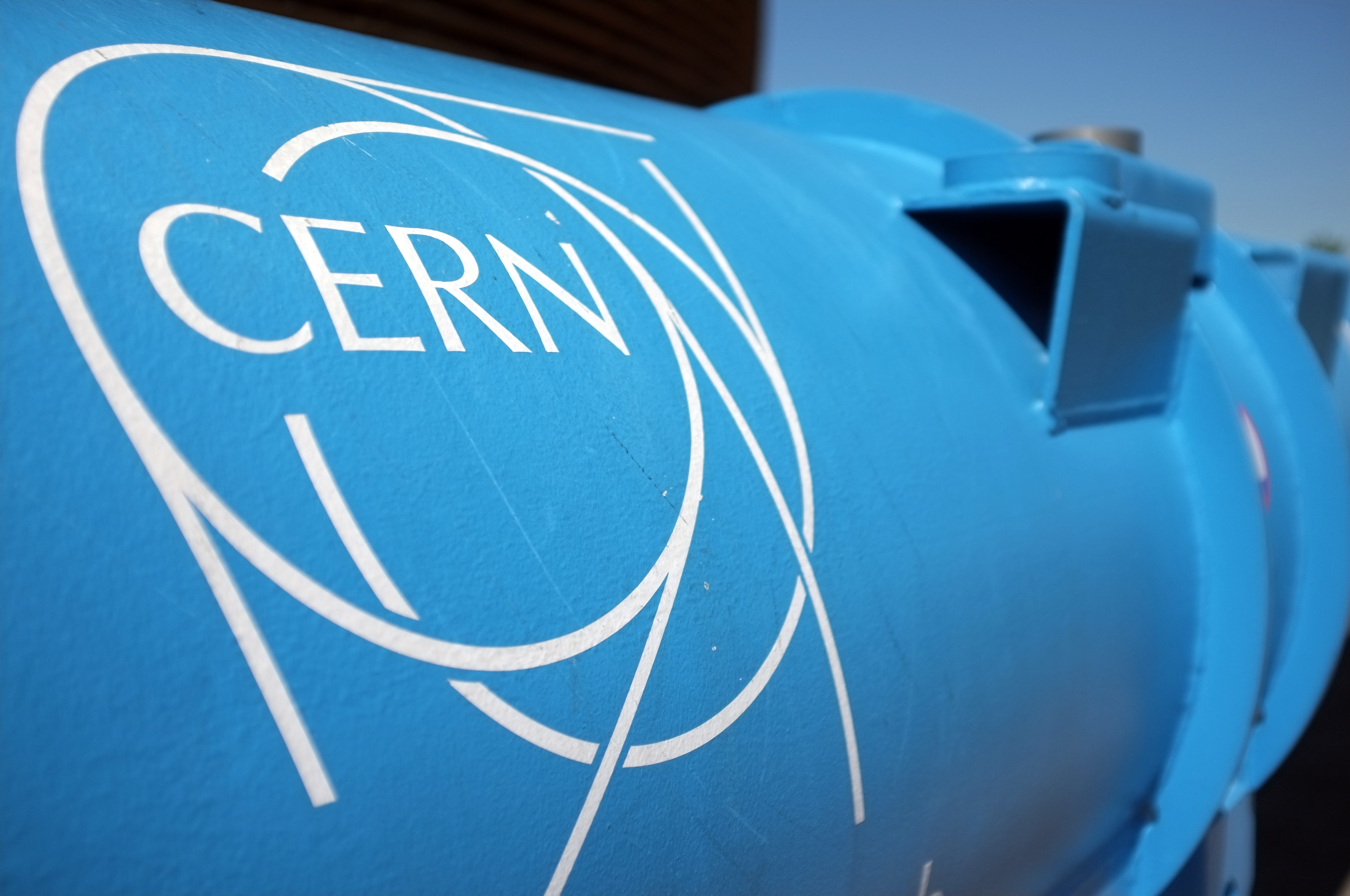 Part of a tube of an accelerator of CERN with the CERN logo. A beam line.